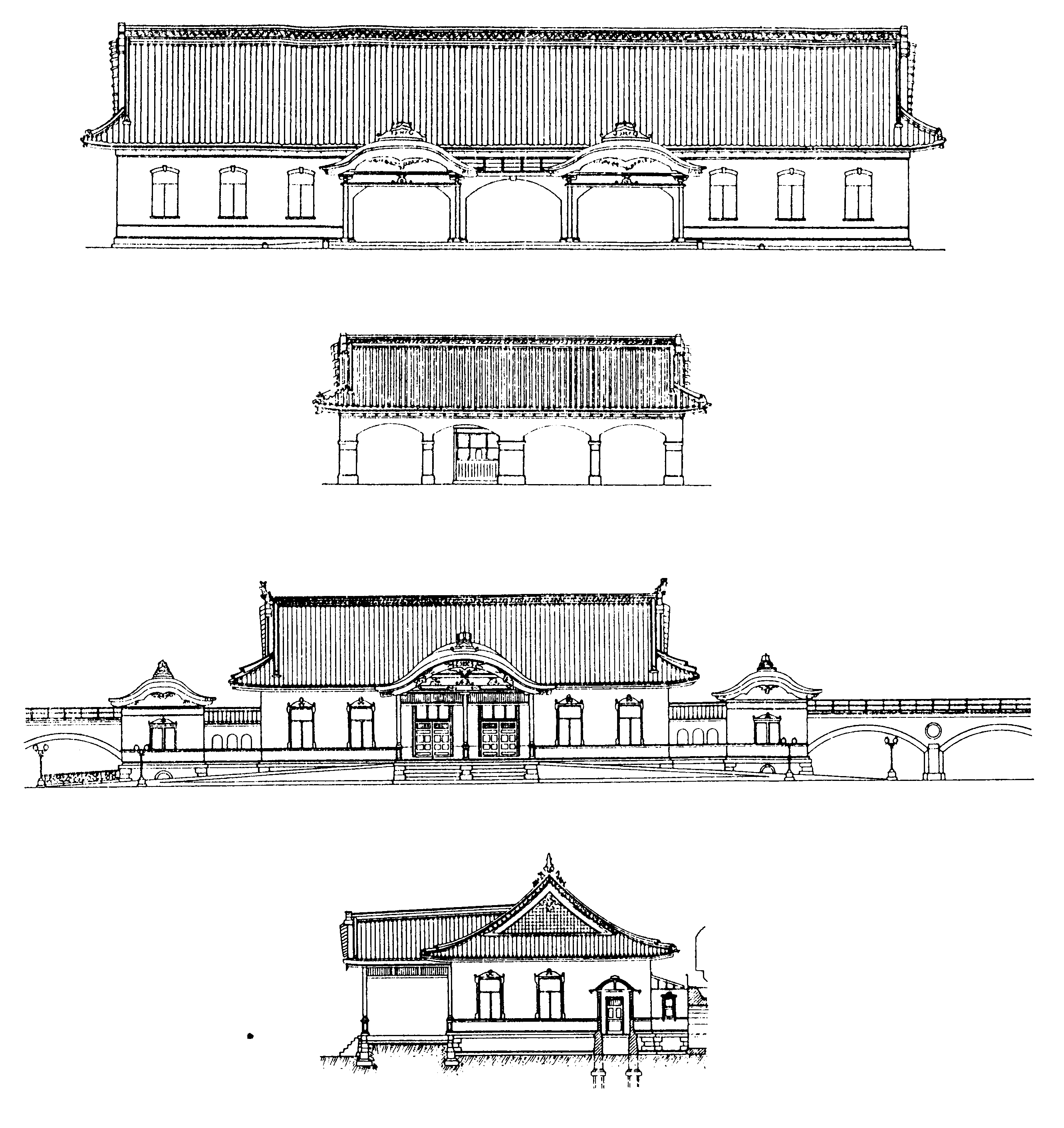 Franz Baltzer's original plan of Tokyo station. From top to bottom, arrival building for long-distance trains, arrival building for urban railway, front of imperial equipment and side of imperial equipment.